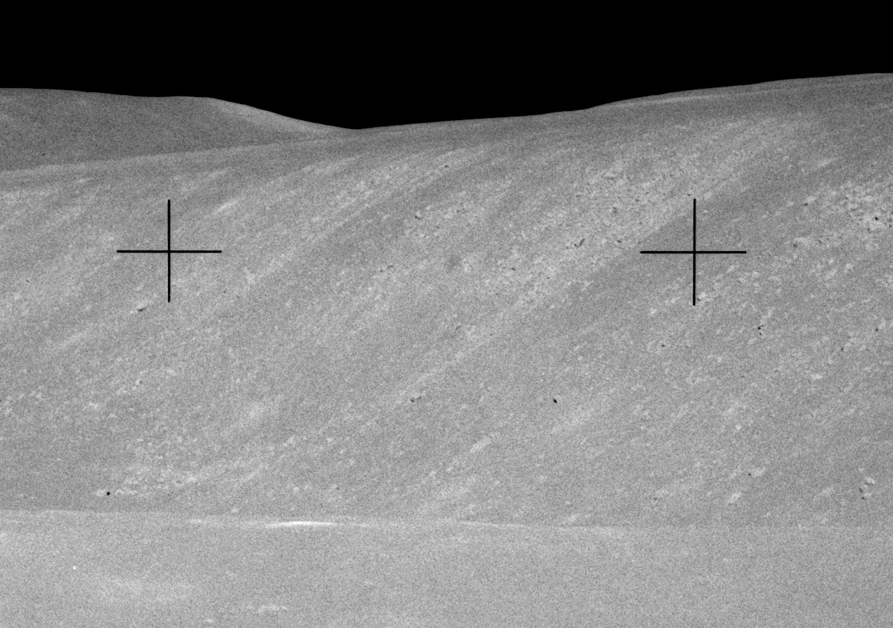 Oblique view of Bridge crater, on the west wall of Hadley Rille, on the moon. The crater is heavily degraded in shape due to the impact being on a steep slope. The contrast and brightness have been altered from the original image.